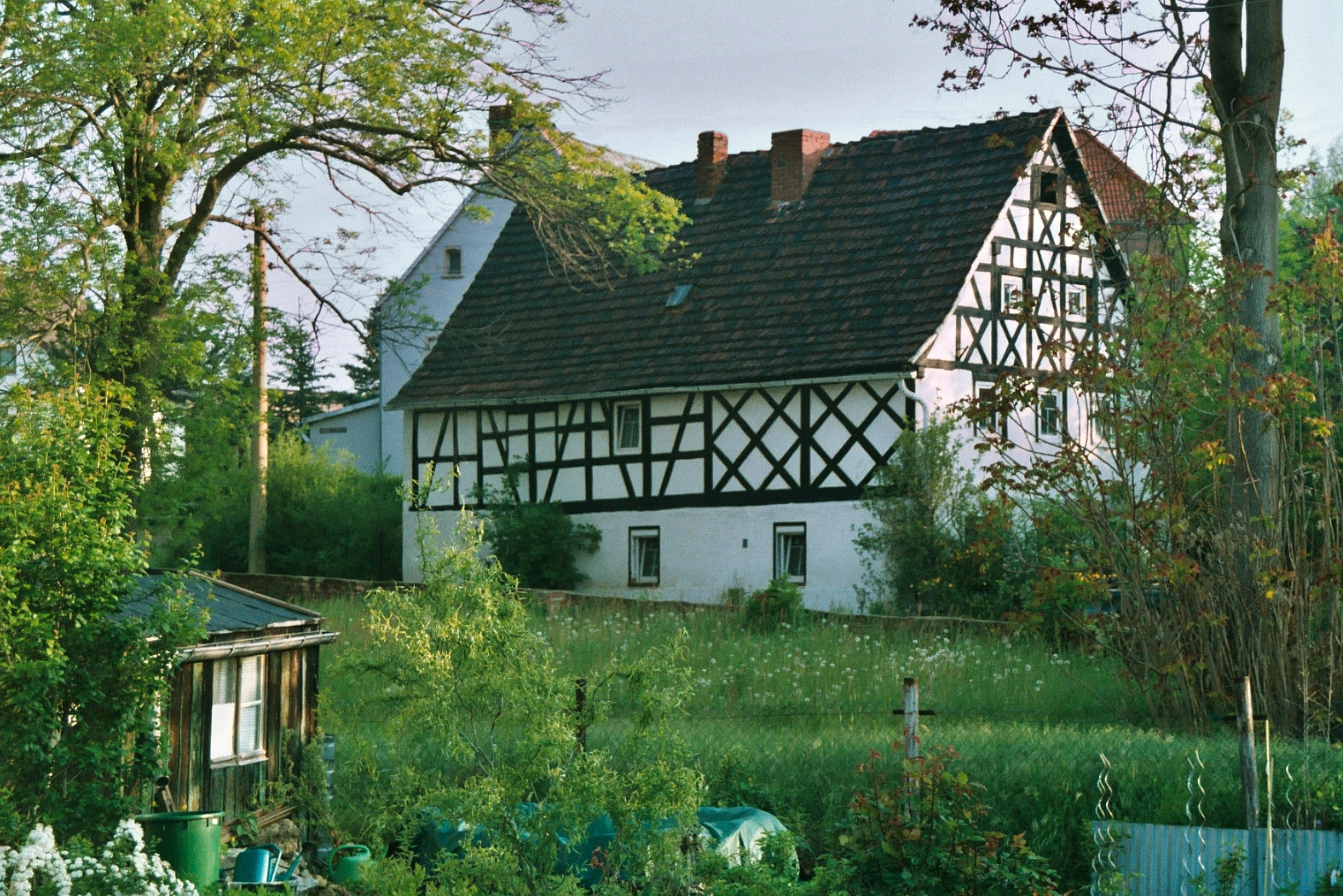 Deuben, OT Naundorf (Teuchern), a timber framed house